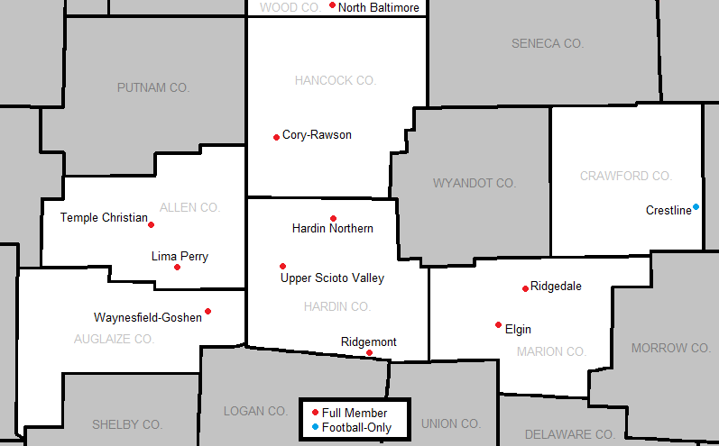 ( Text created by Frank12. Originally from en.wikipedia)